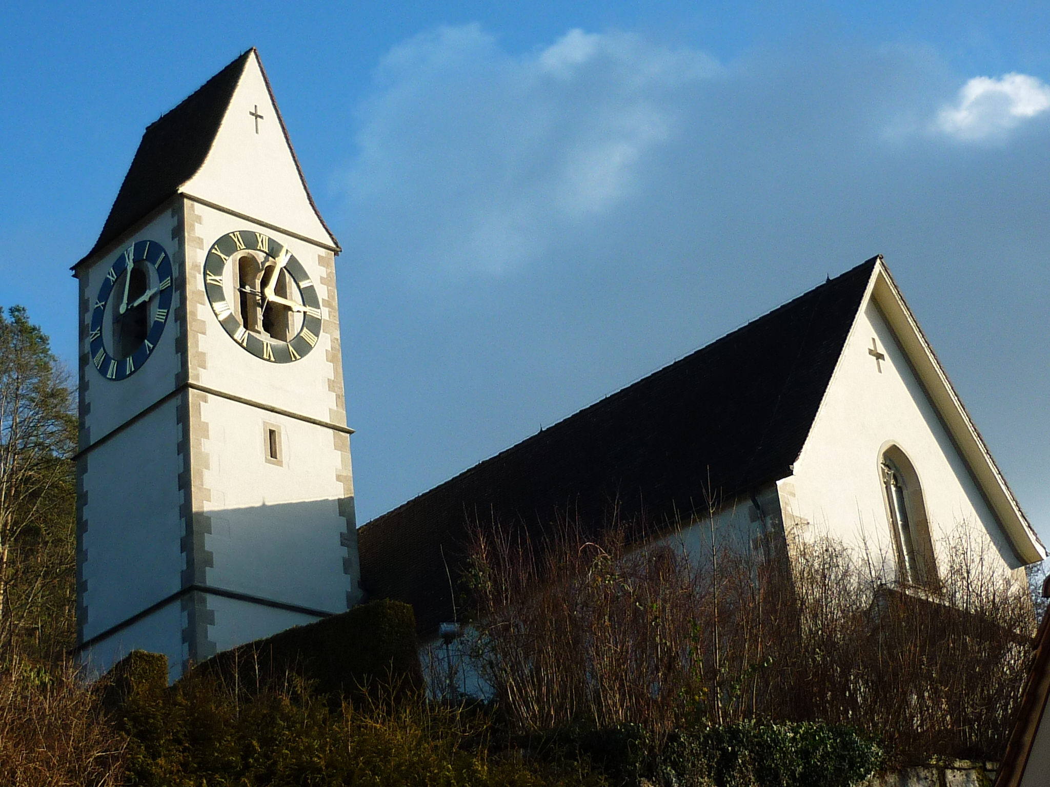 Reformierte Kirche, Stallikon ZH, Schweiz